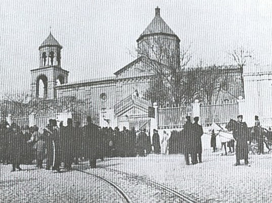 Armenian Apostolic church of Saint Gregory the Illuminator in Baku